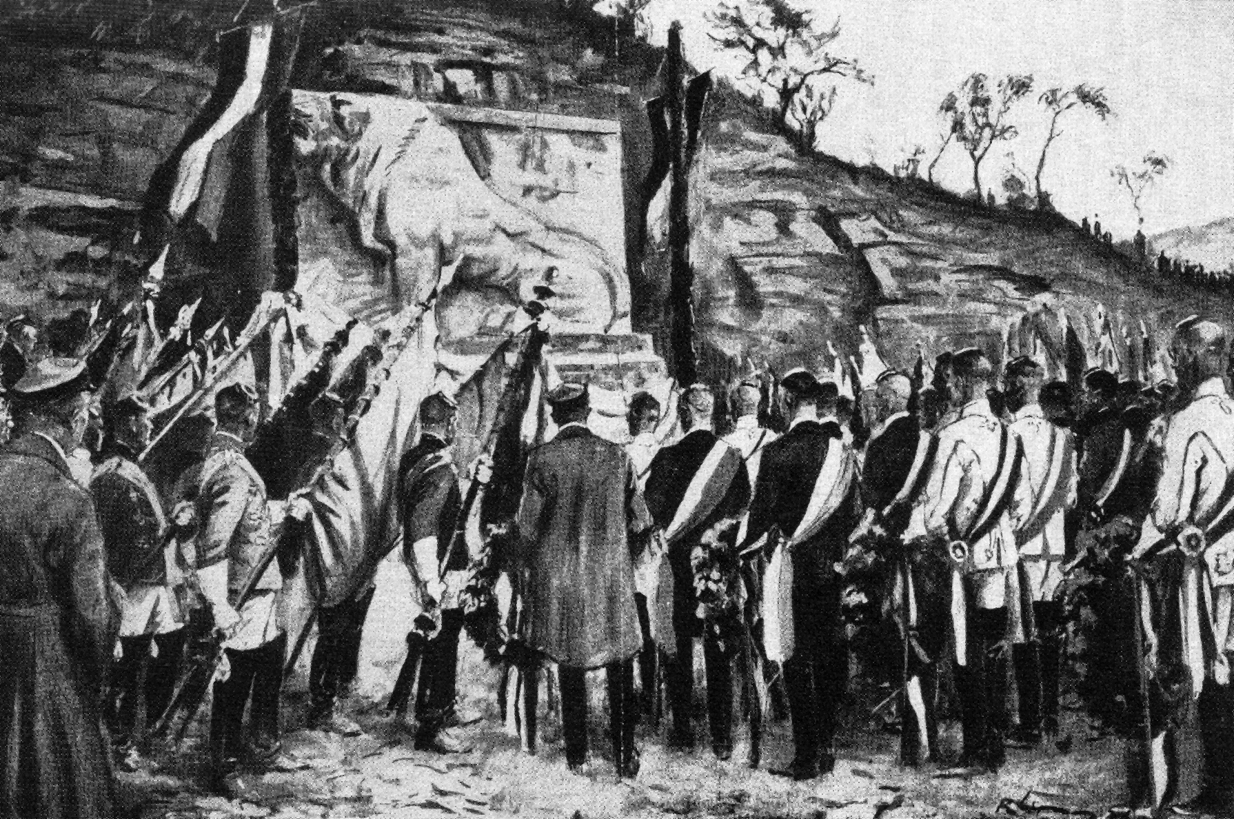 Inauguration of the memorial for the fallen corpsstudents in World War 1